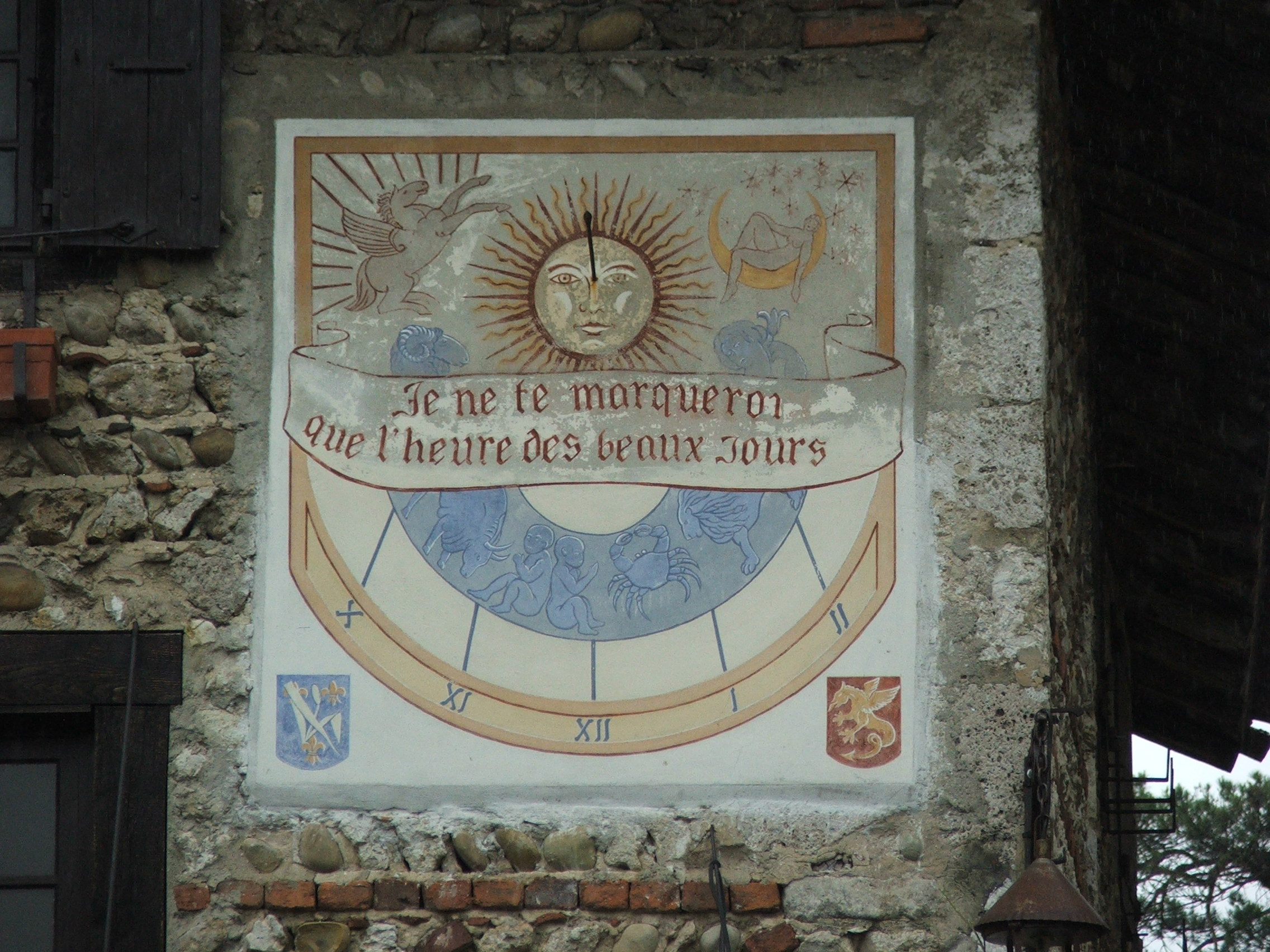 Sundial in Peruges. Department Ain, (France).